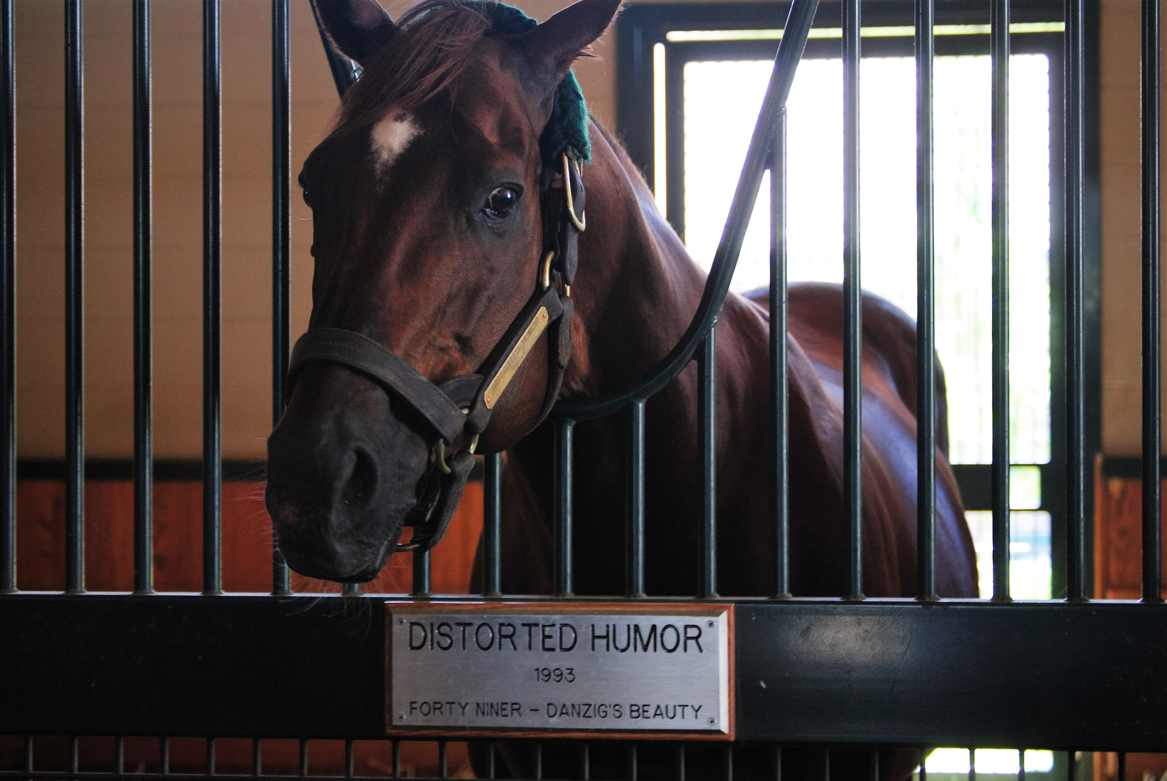 Distorted Humor at Winstar Farm in 2015